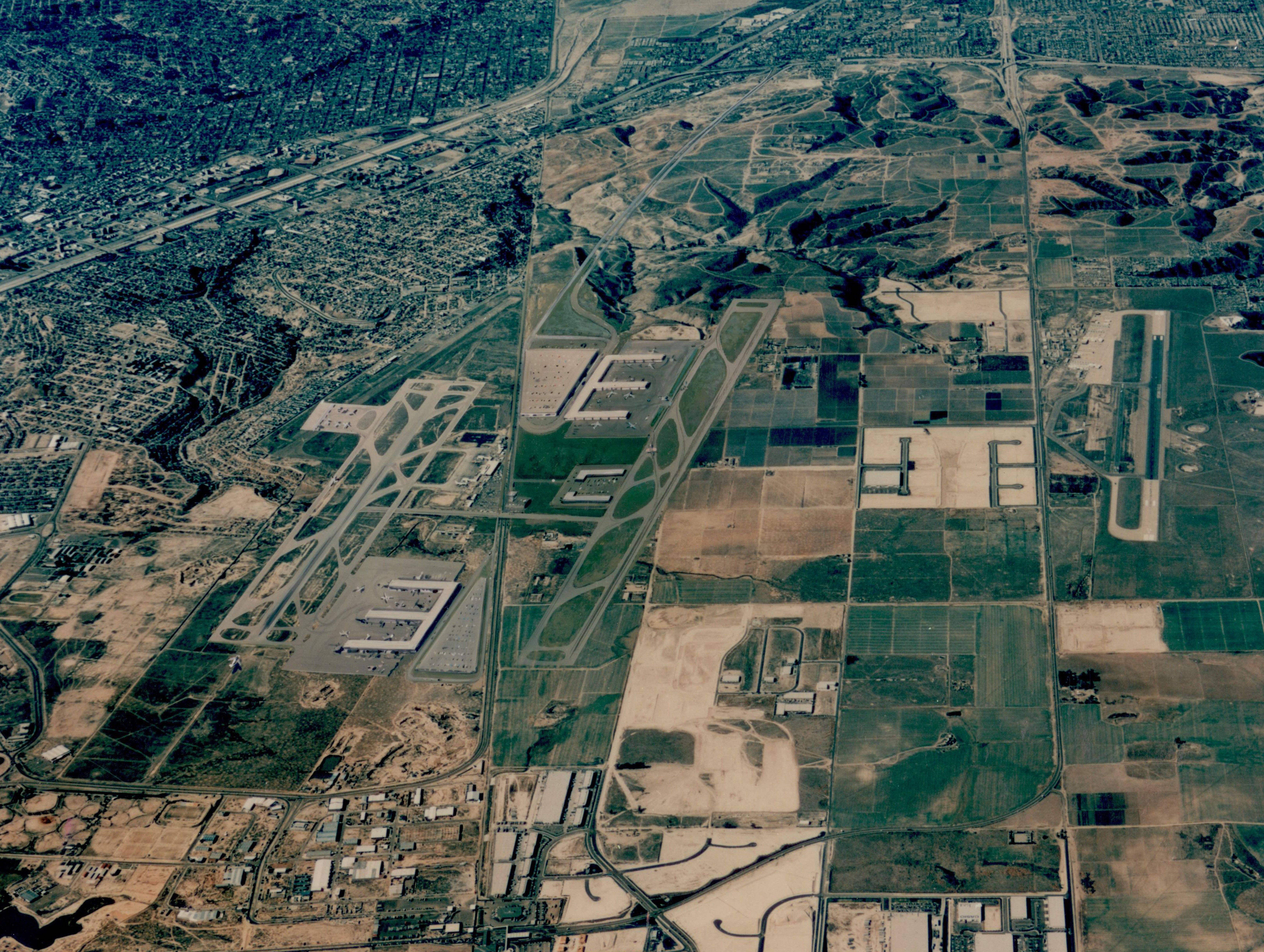 A joint U.S.-Mexico airport between Tijuana, Mexico and San Diego, California